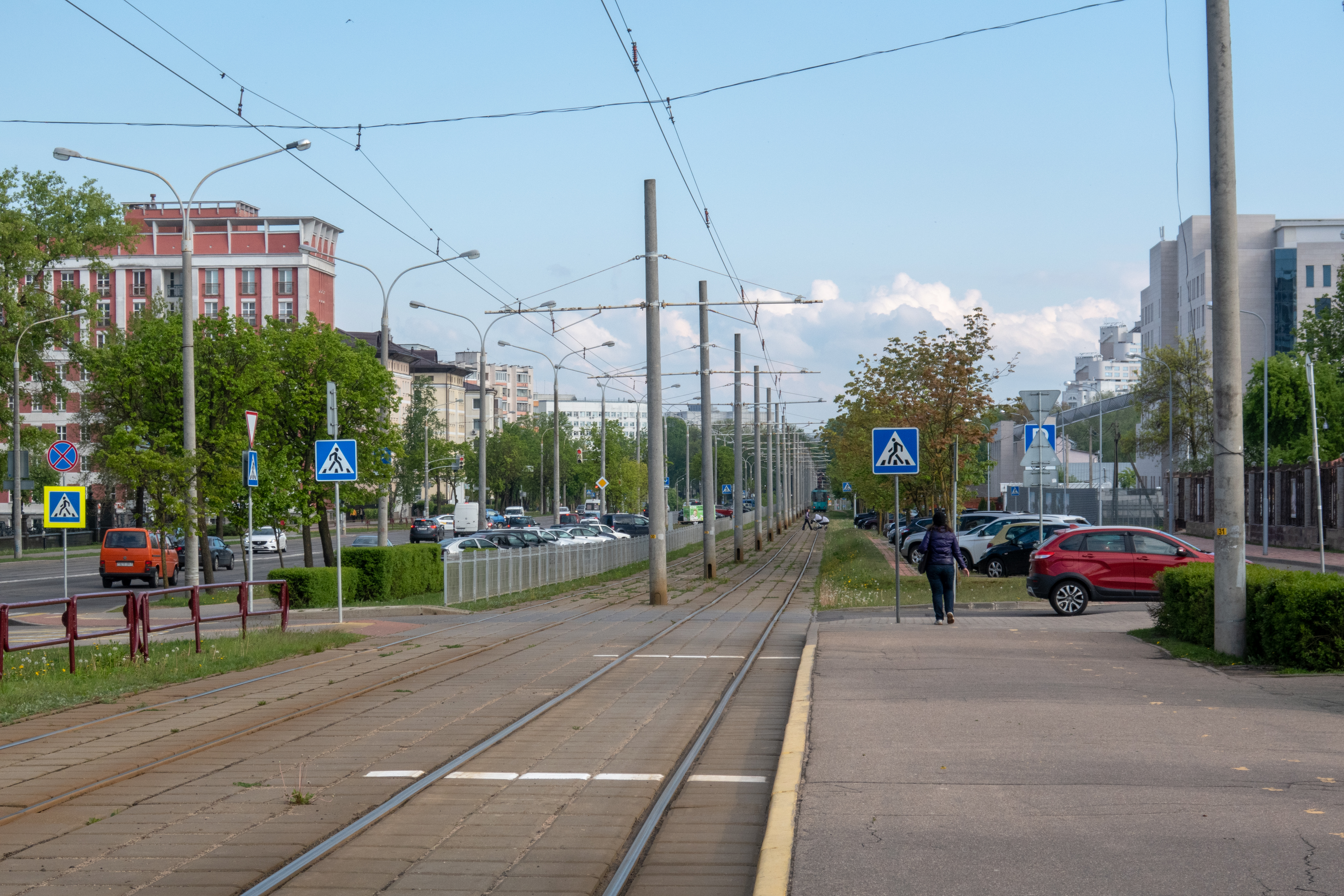 Staravilienski Trakt (Minsk, Belarus)